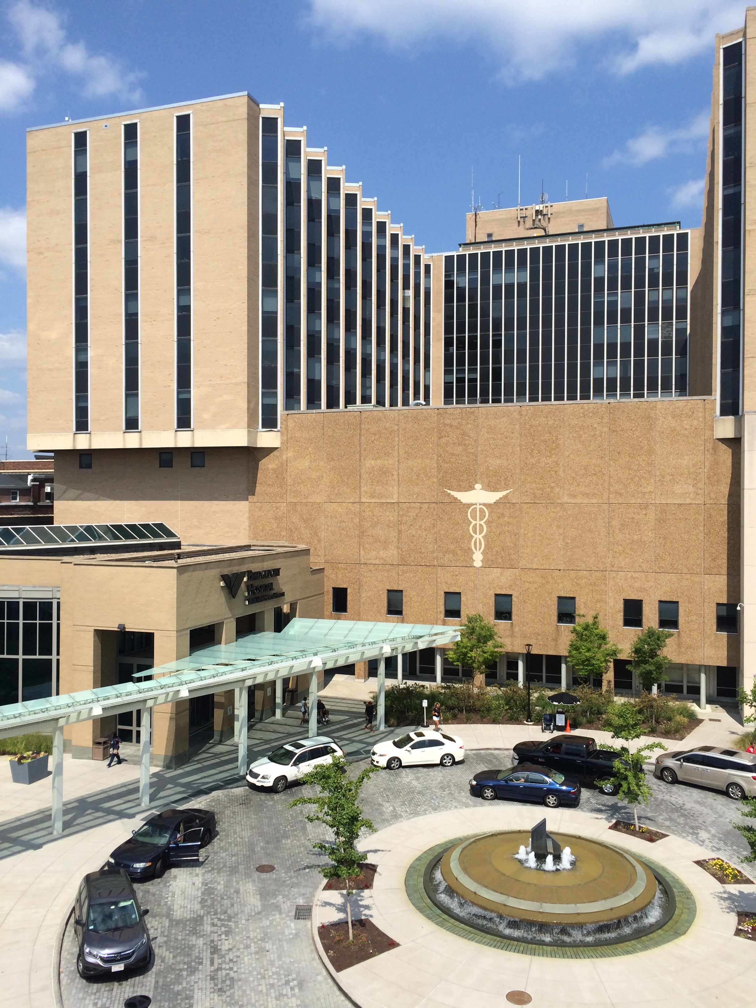 Entrance and main facilities of Bridgeport Hospital in Bridgeport, Connecticut